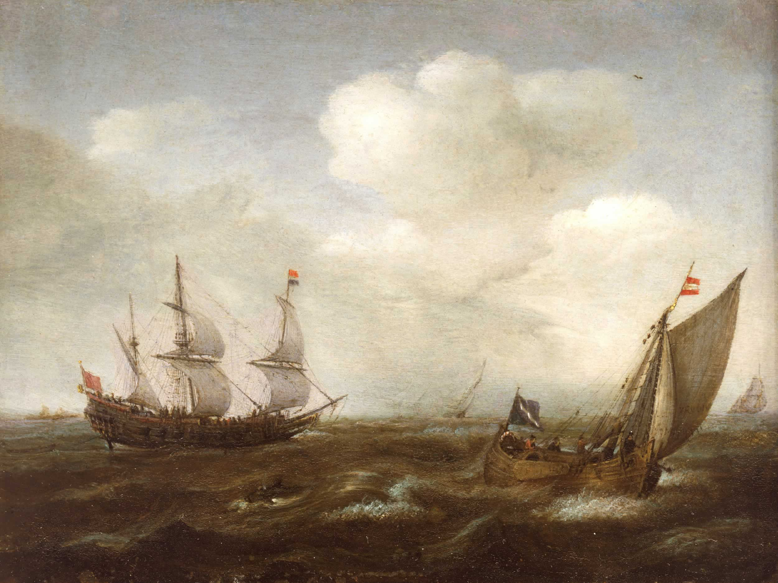 Under a tall pale blue sky, with light shimmering through white clouds, a number of ships can be seen sailing in a fresh breeze. A small whale or dolphin is spouting water, in the foreground, amid the choppy waves. Above the low horizon, on the left, a stretch of land is just about visible through the moist atmosphere. On the right there is a kaag, or passenger boat, with several passengers and crew on board. The rigging and detail on the boat has been carefully executed. This vessel is ploughing the waves and, like the distant ships, which appear wrapped in the mist, its depiction displays a degree of naturalism that departs from Vroom’s other paintings.